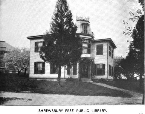 Public library, Massachusetts